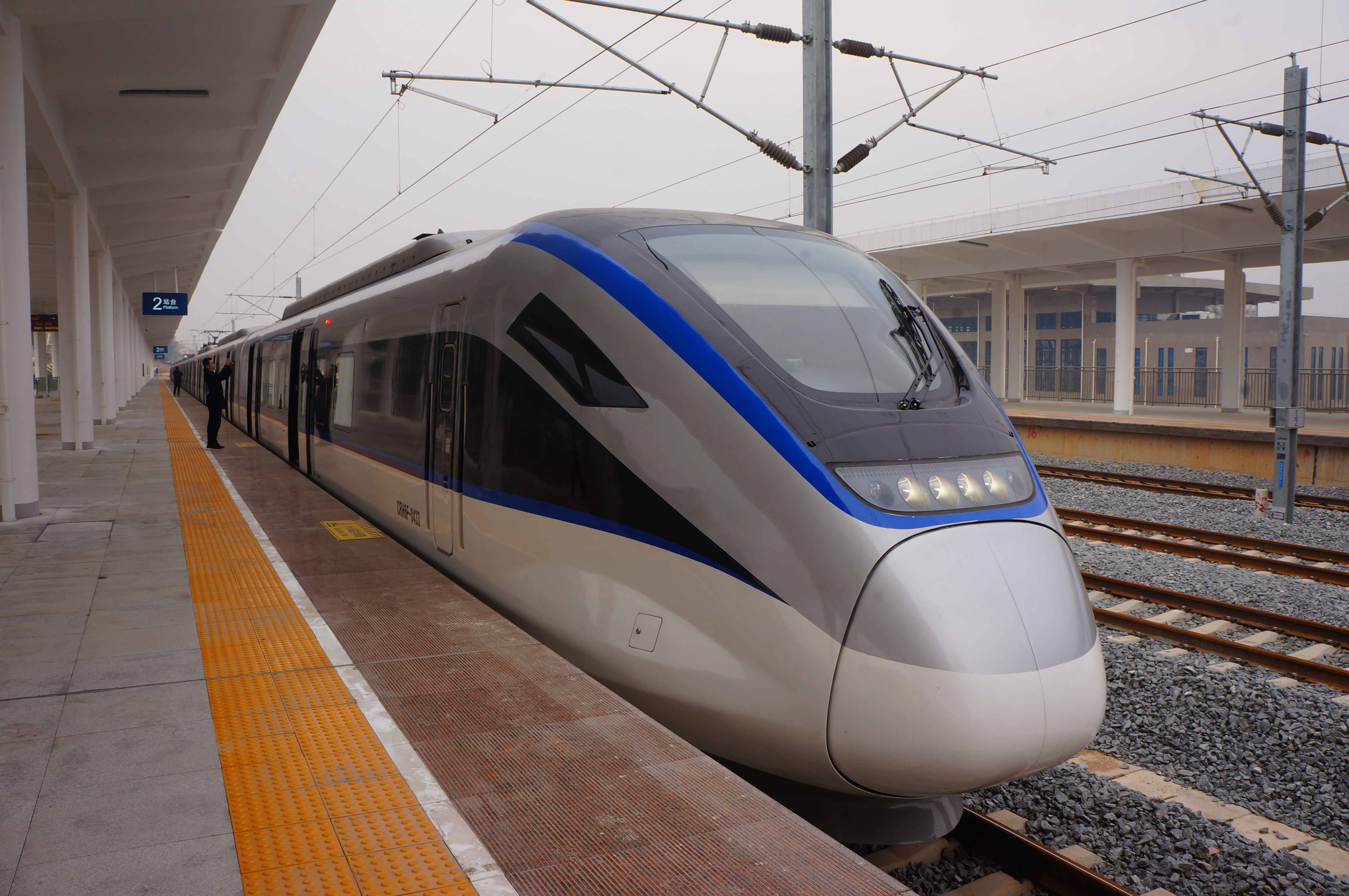 201712 CRH6F-0433 at Changshaxi Station